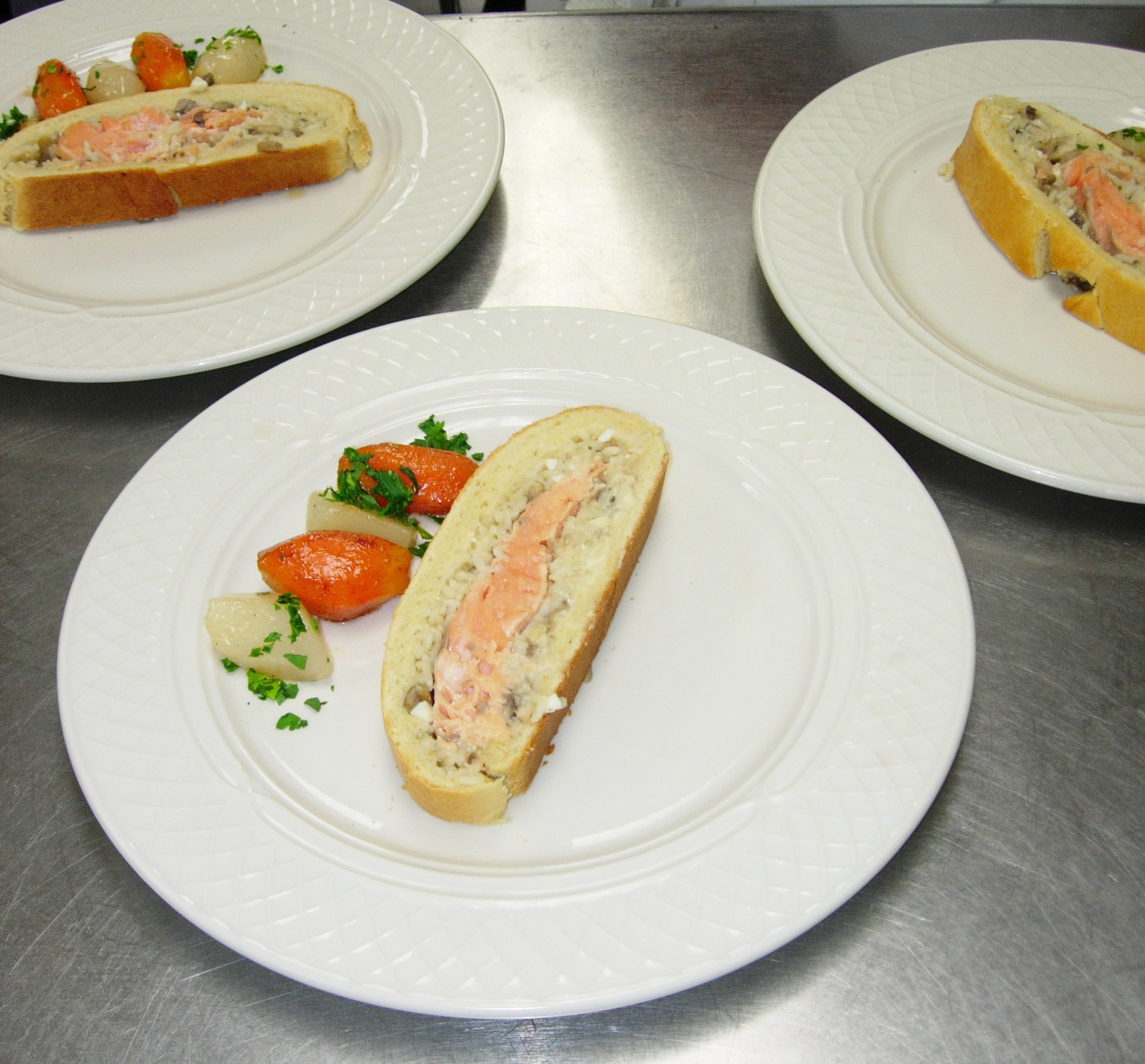 Coulibiac with salmon